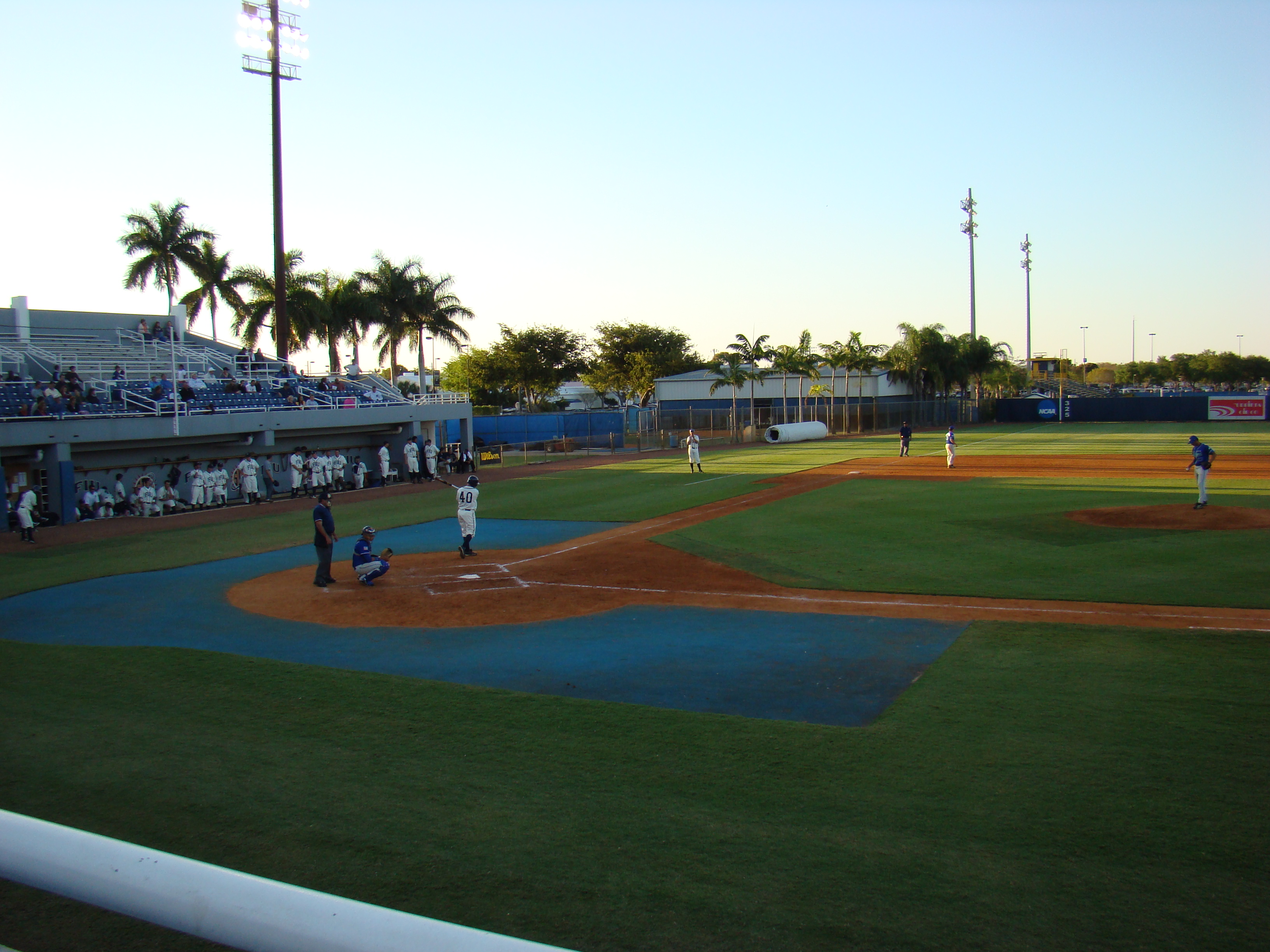 FIU Baseball during a game vs. Florida Gulf Coast University in 2009.